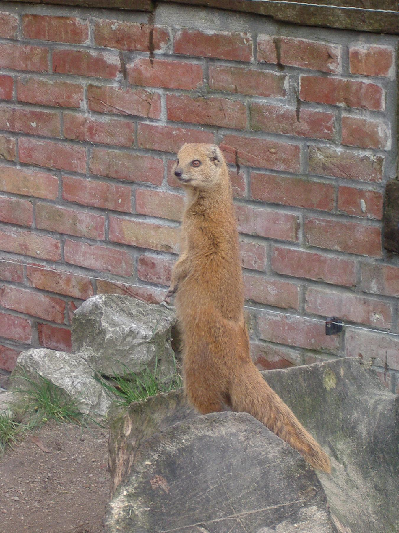 Cynictis penicillataLille Zoo.